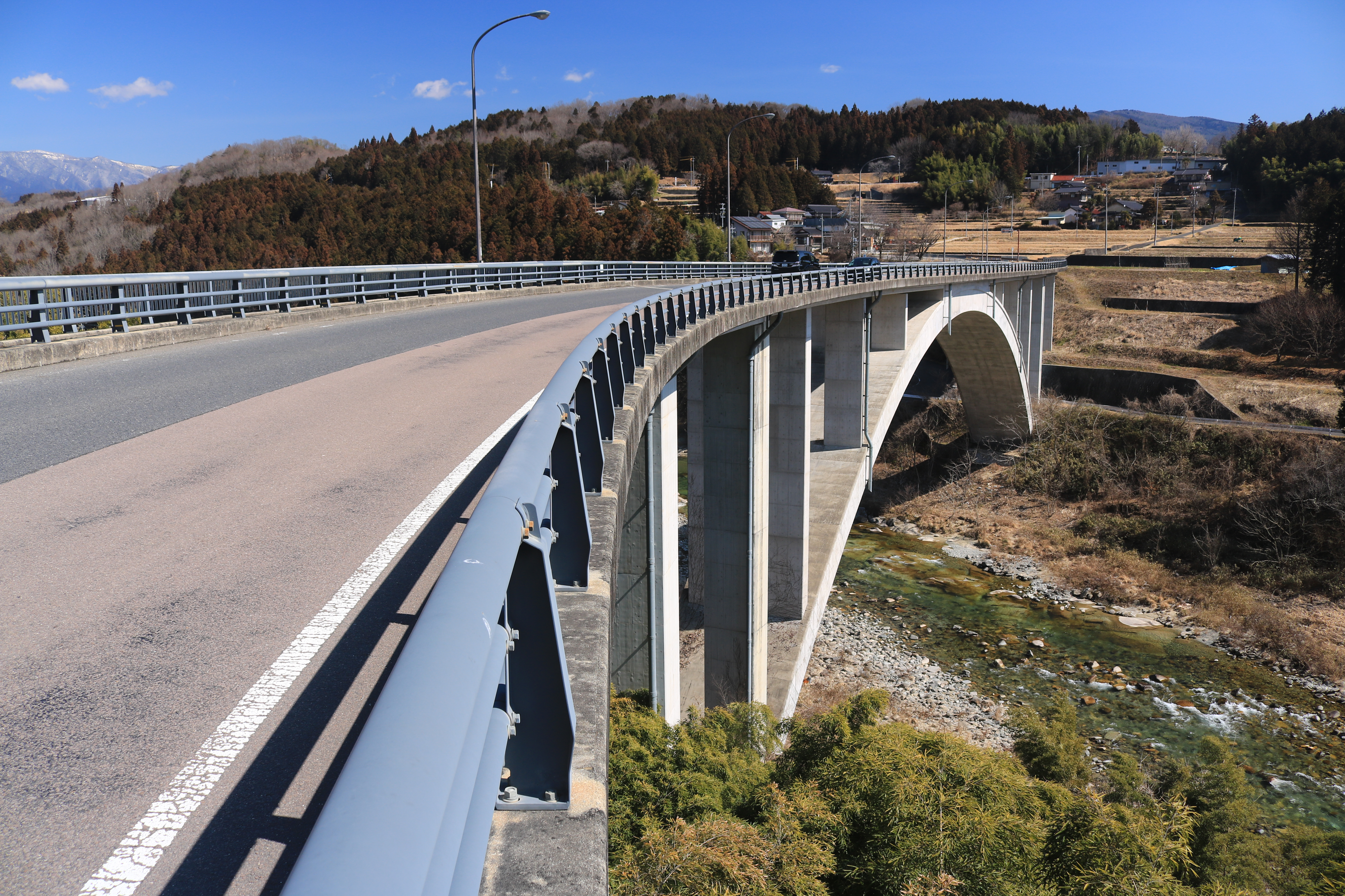 Takayama Bridge of Gifu Prefectural Road Route 408 over Tsukechi River in Takayama, Nakatsugawa, Gifu prefecture, Japan.